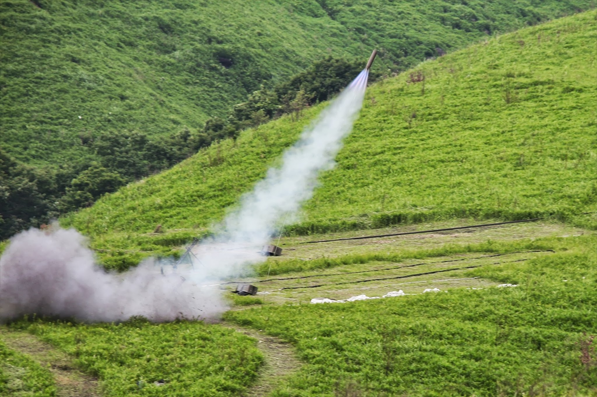 Title 25.06.06~11 ８ｉ・第２次射撃野営(25.6.14受信・小川１曹)70MC_0048.jpg Album 装備 ７０式地雷原爆破装置（第２次射撃野営・第８普通科連隊）